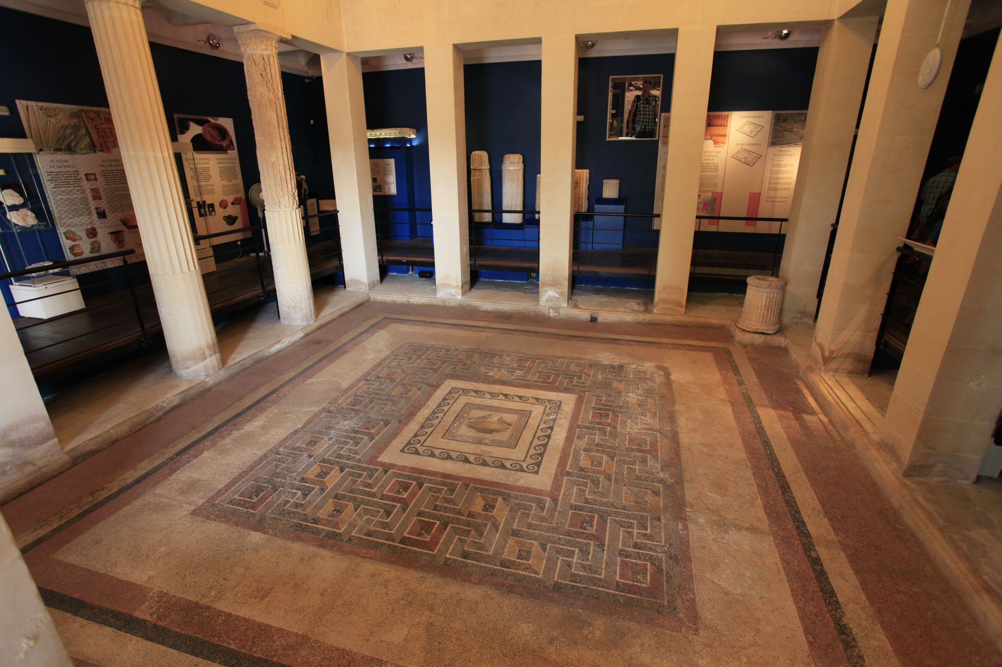 Main mosaic of the Domus Romana (Roman House) at Mdina (NOT Rabat!), Malta